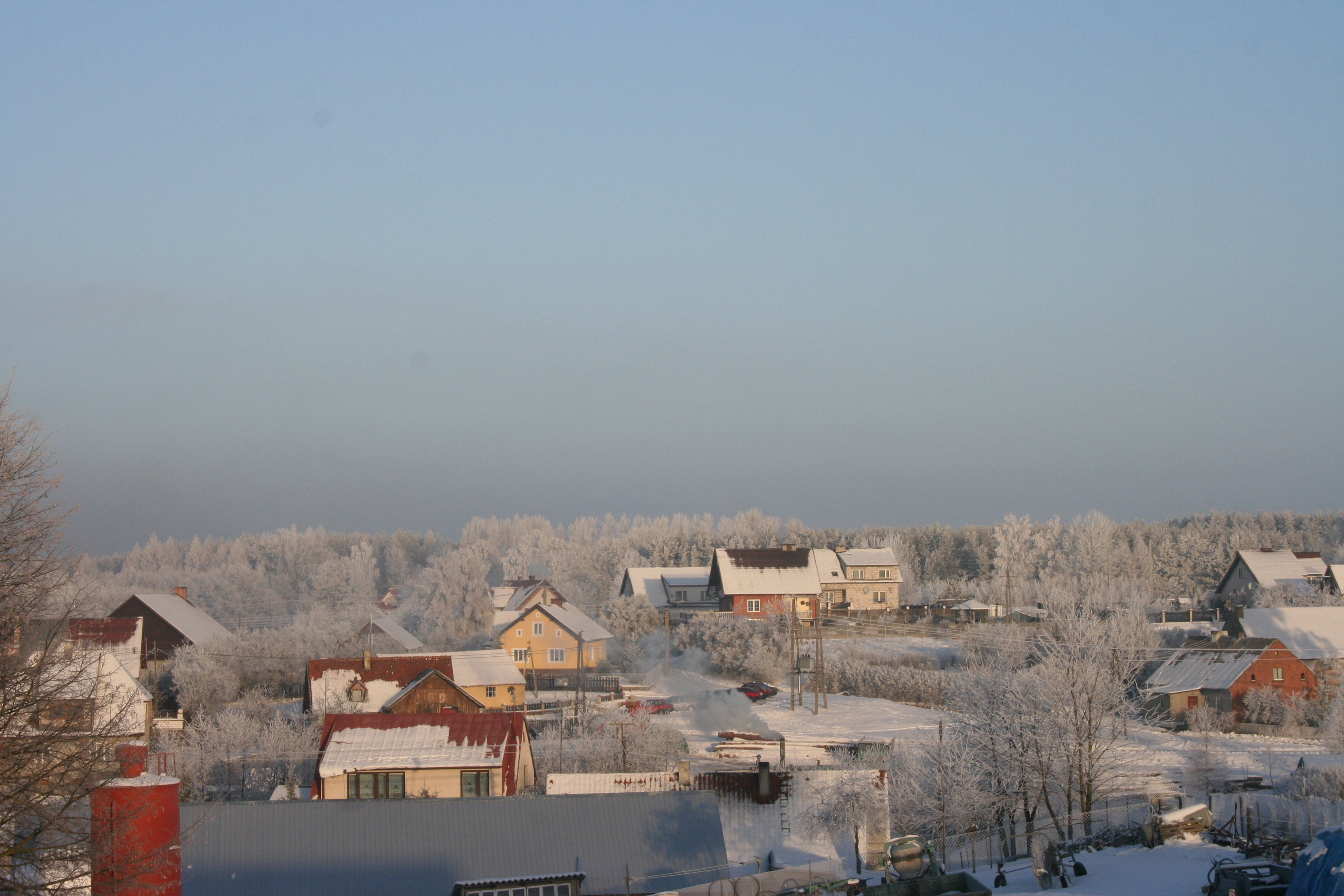 Masurian winter, village Kosewo under the snow.